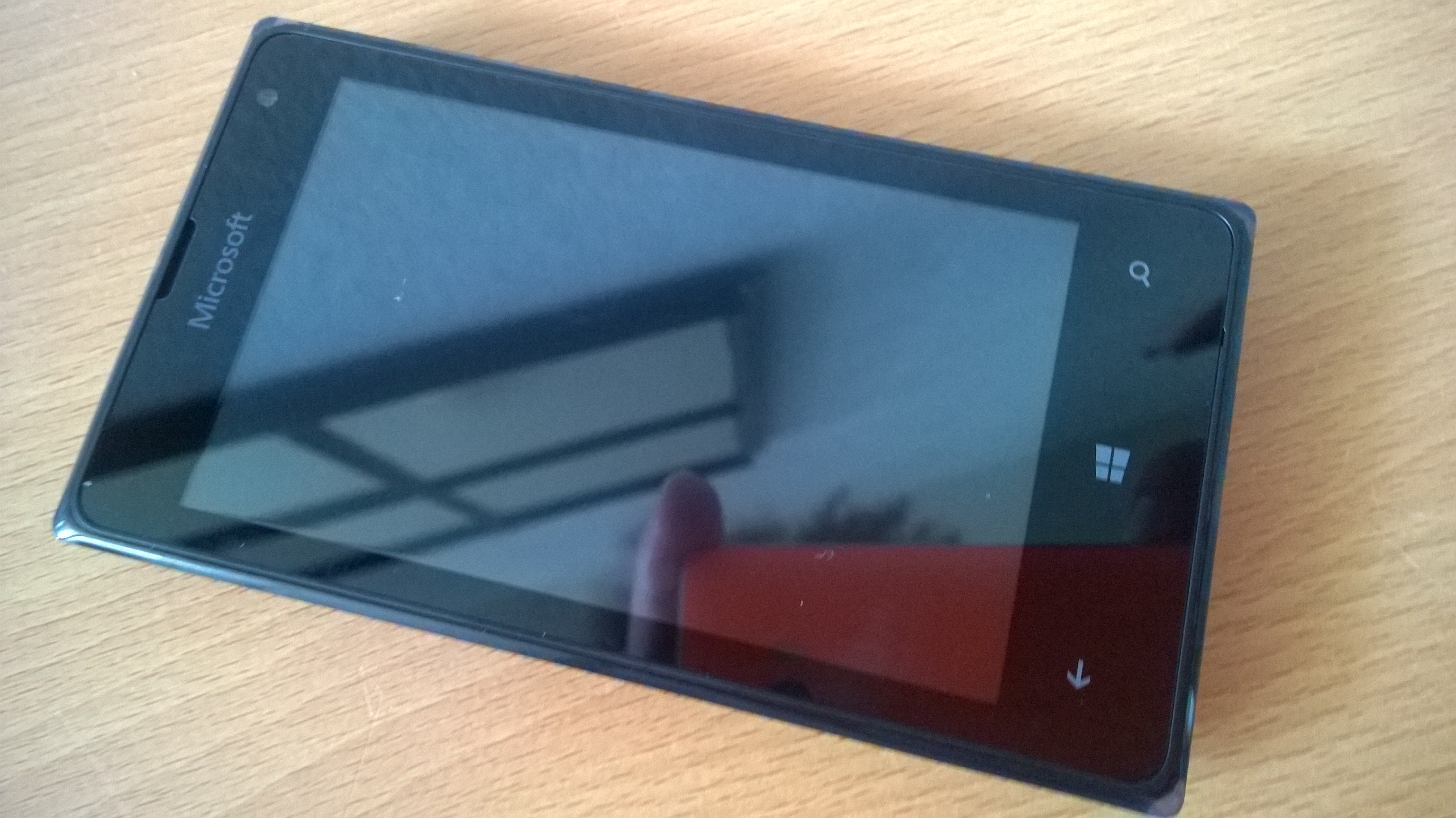 The Microsoft Lumia 532 is a mobile telephone manufactured by Microsoft Mobile Oy.